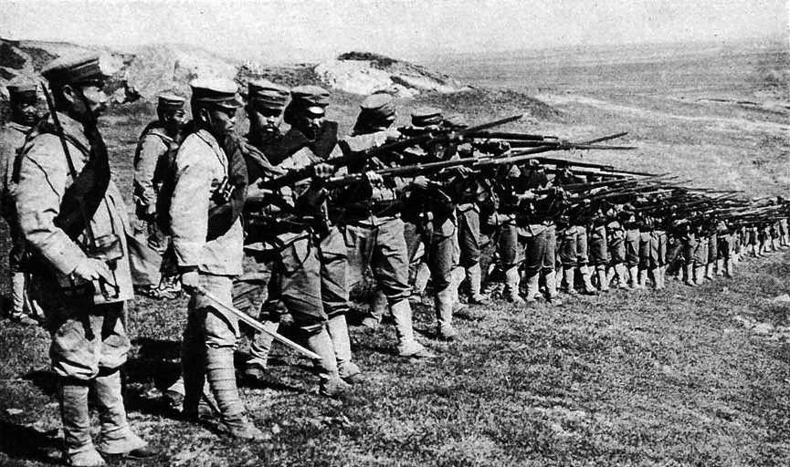 Soldiers of IJA 18th division ready to advance during the siege of Tsingtao, 1914.